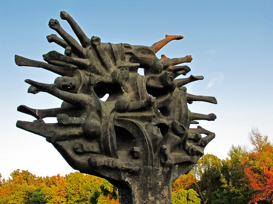 Monument "One hundred for one" in Šumarice memorial park, Kragujevac. Author of the monument is Nandor Glid, 1981.